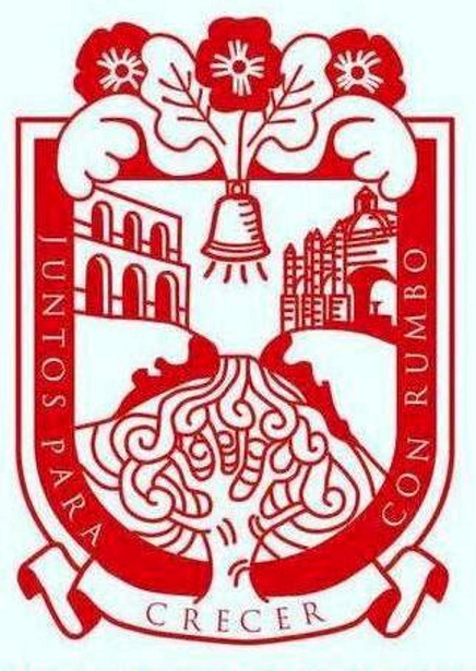 Official Coat of Arms of The Heroica Chiapa de Corzo